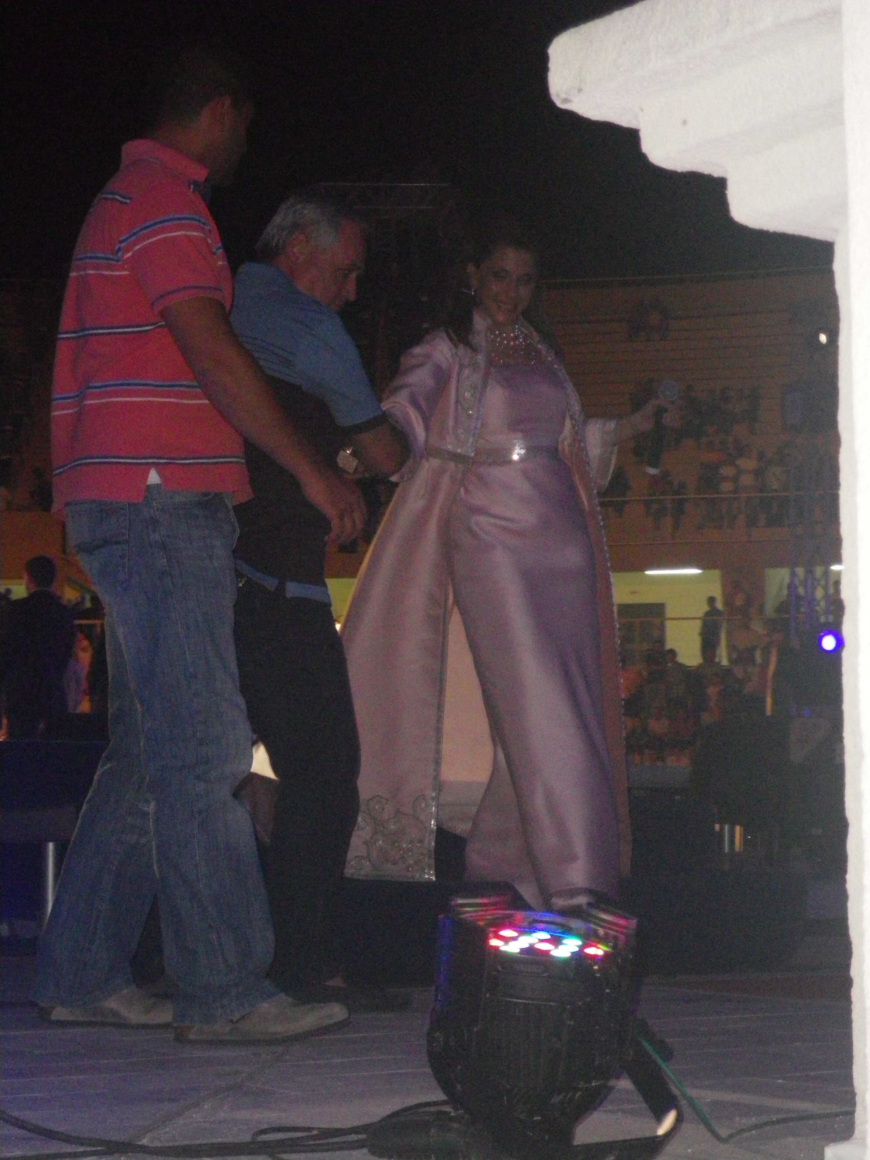 Lebanese singer Majida El Roumi at Timgad International Festival in Algeria.